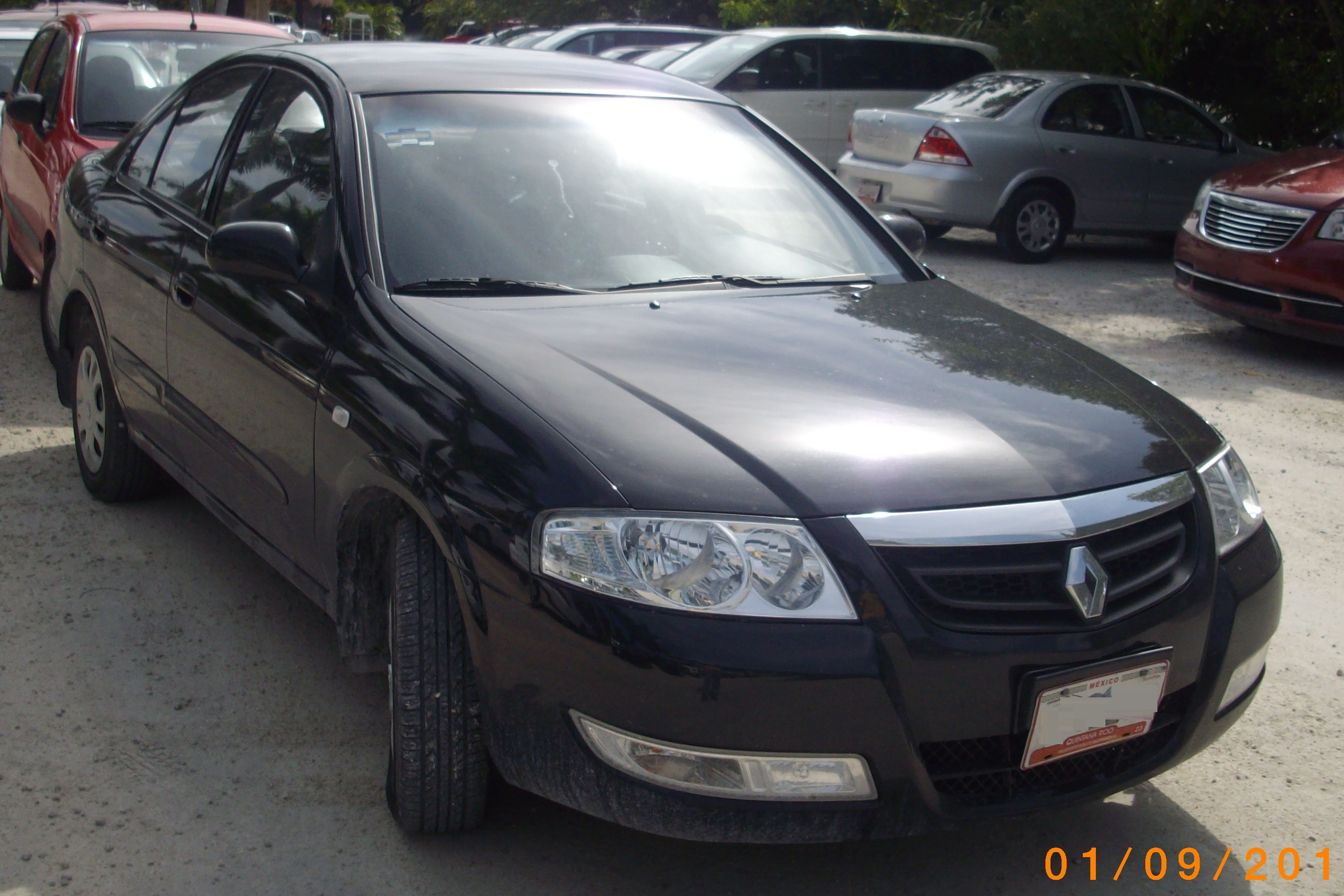 Renault Scala photographed in Quintana Roo, Mexico.